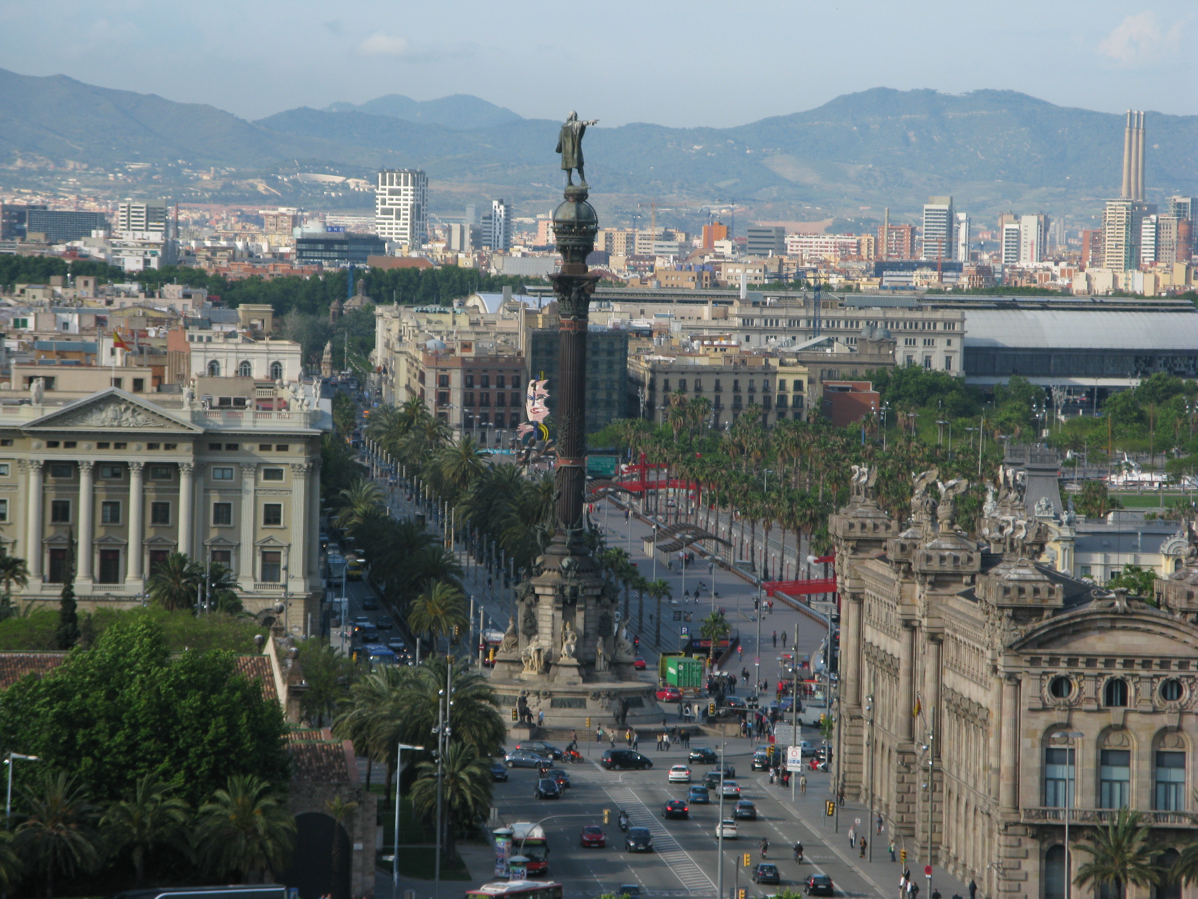 Columbus Monument, Barcelona